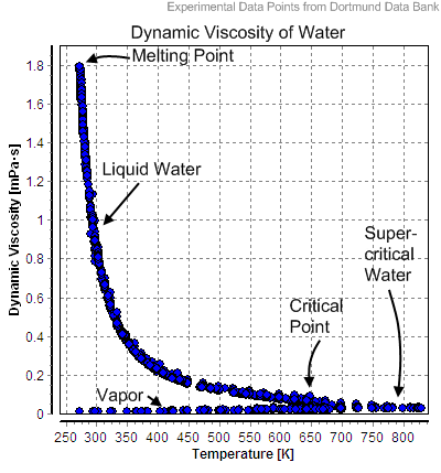 Dynamic Viscosity of Water. Experimental Data taken from Dortmund Data Bank.